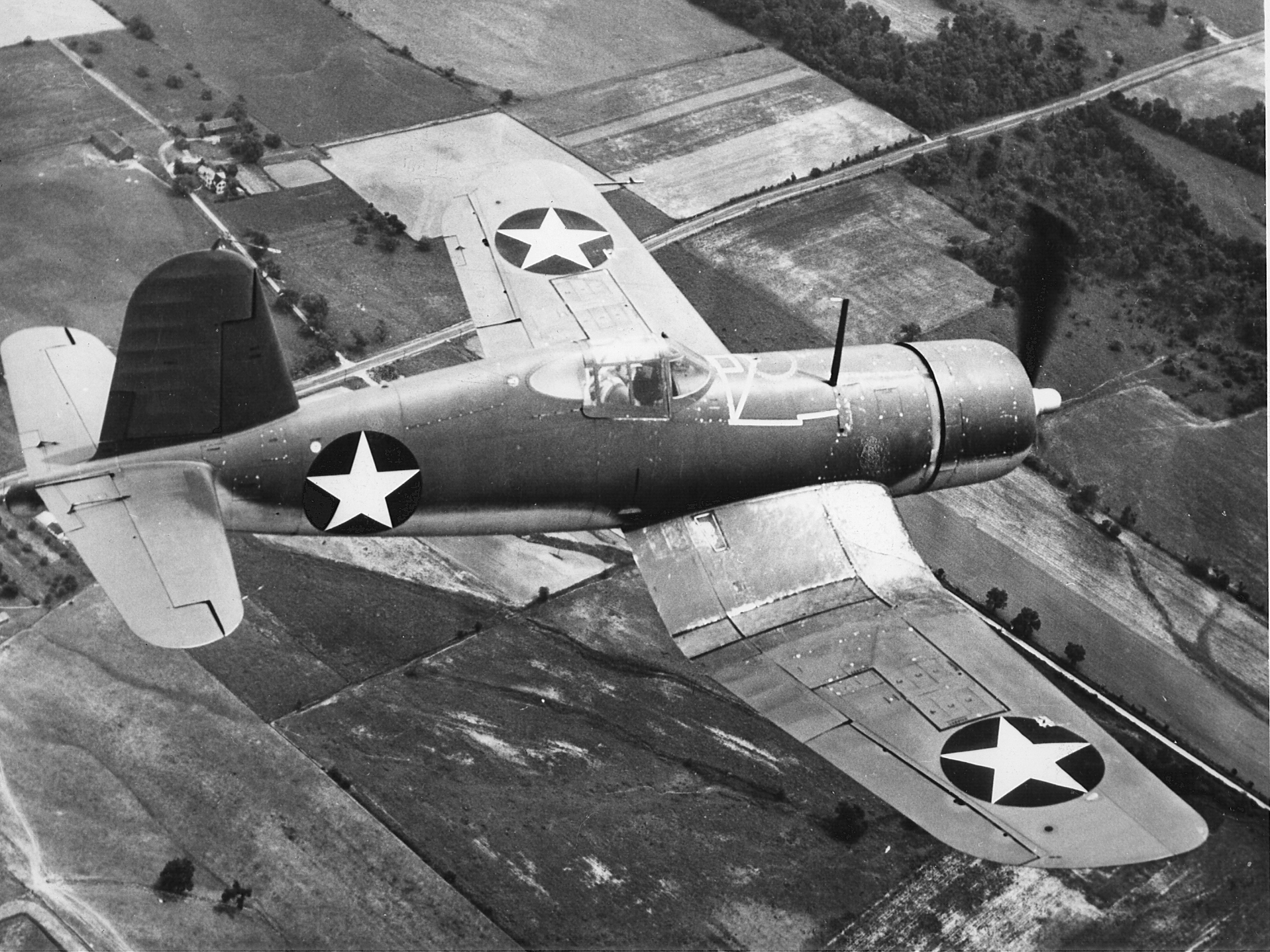 A U.S. Navy Brewster F3A-1 Corsair in flight. "F3A-1" was the designation for the Brewster-built F4U-1. Just over 700 were built before Brewster was forced out of business. Poor production techniques and shabby quality control meant that these aircraft were red-lined for speed and prohibited from aerobatics after several lost their wings. This was later traced to poor quality wing fittings. None of the Brewster-built Corsairs reached front line units.